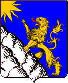 Coat of arms of the Rambaud family (1787).